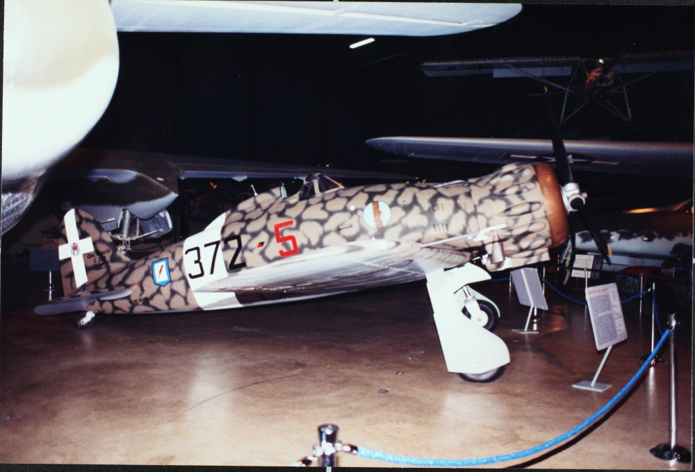 PictionID:42002730 - Title:Macchi MC-200 - Catalog:15_003013 - Filename:15_003013.TIF - Image from the Charles Daniel's Collection Italian Aircraft Album.Repository: San Diego Air and Space Museum Archive